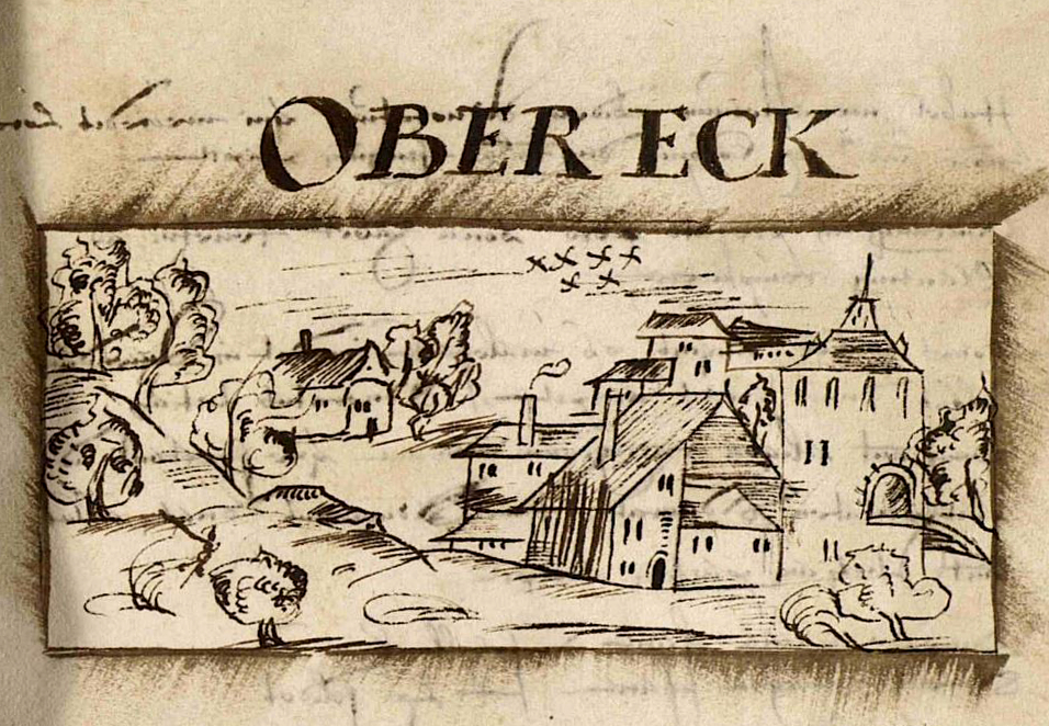 "Obereck" (today: Alsdorf-Oberecken, municipality of Irrel, Eifelkreis Bitburg-Prüm) by Jean Bertels, ~1597